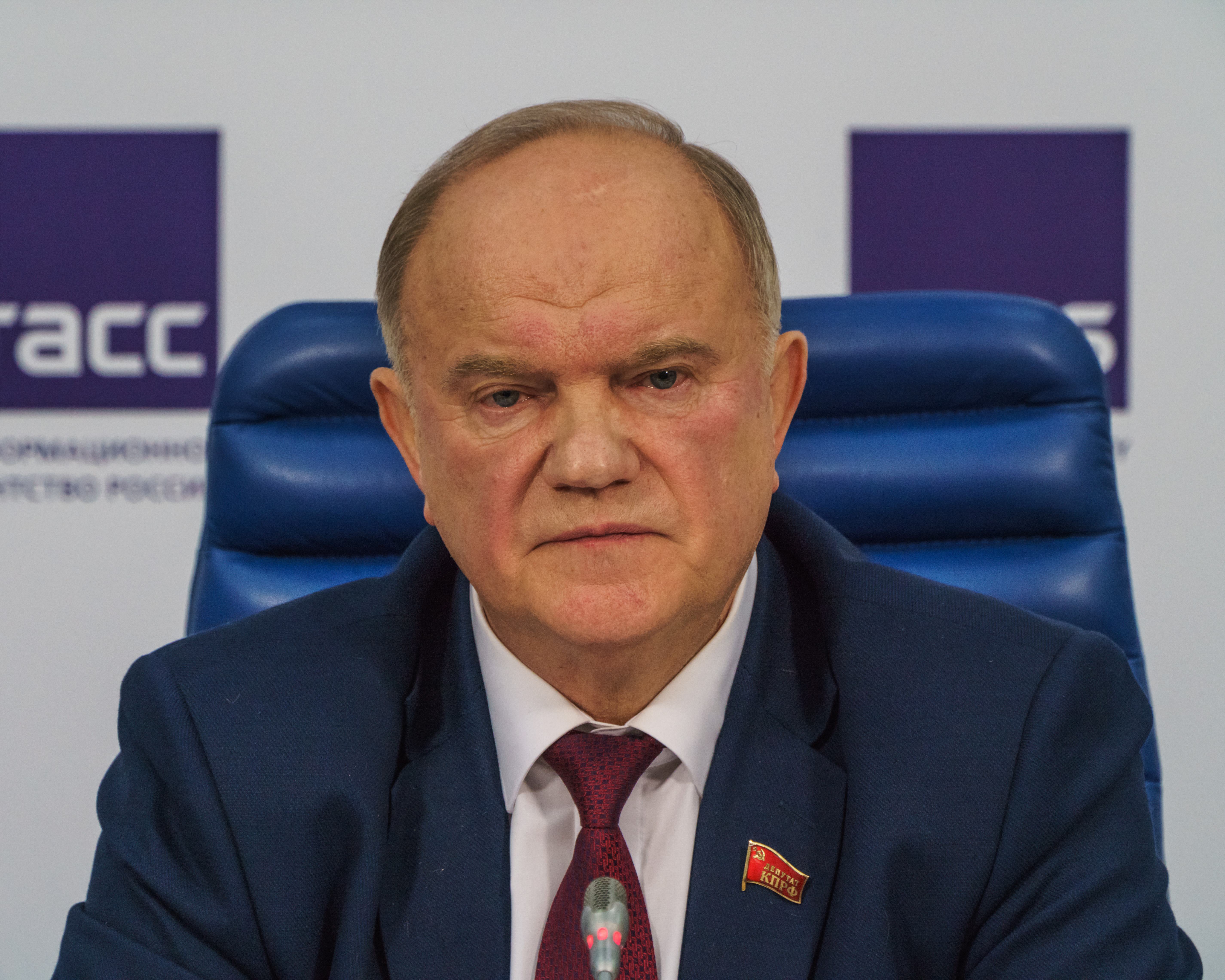 Gennady Zyuganov (b. 1944) is a Russian politician, head of KPRF. Photo taken at TASS press center, Moscow.